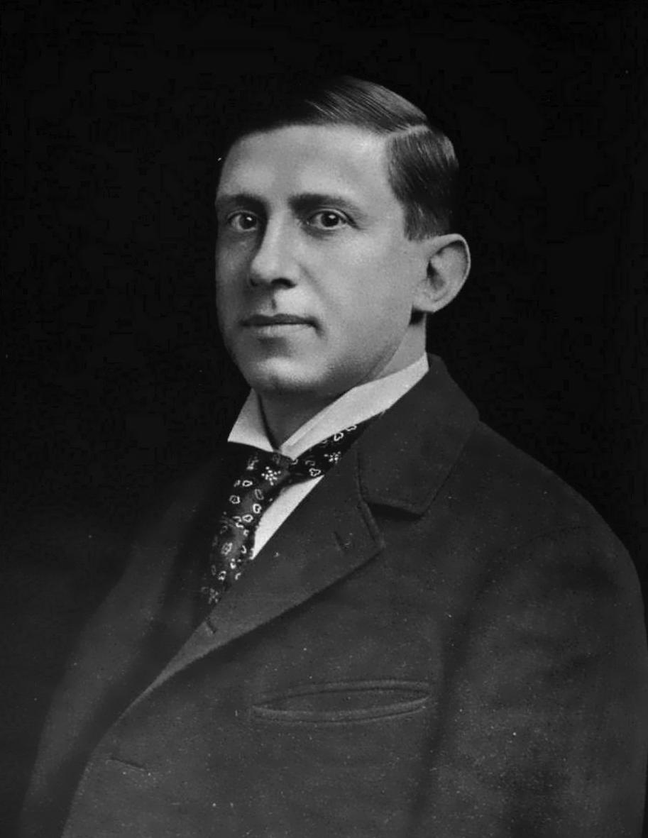 1901 photo of Charles Michael Schwab. Caption: "Mr. Charles M. Schwab, President at thirty-nine years of the new Billion-Dollar Steel Corporation."